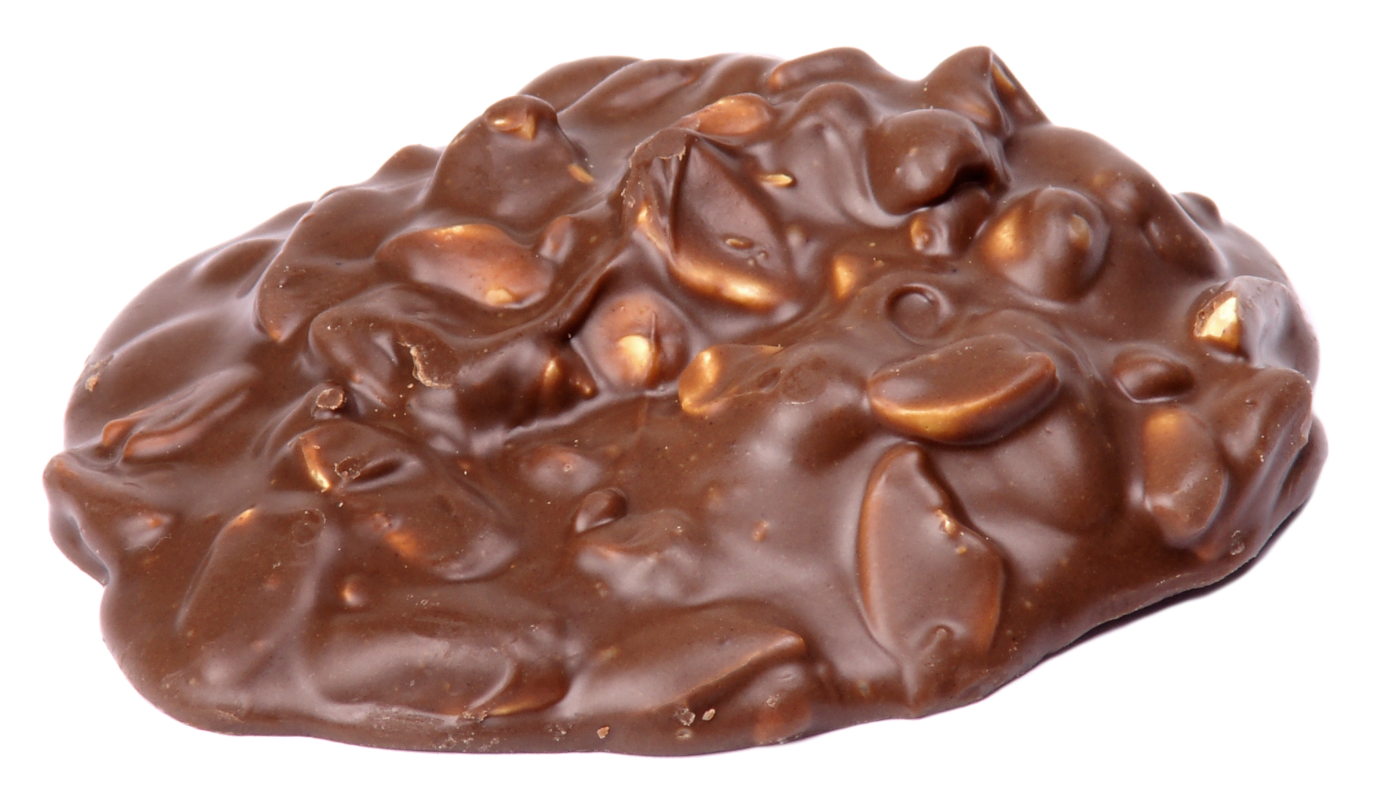 A Pearson's Bun Bar shown whole. One of three flavors (caramel specifically) but all of the Bun Bars have the same outward appearance. Candy was provided from the Pearson's Candy Company to Evan-Amos for the direct purpose of adding pictures to the Wikipedia articles.